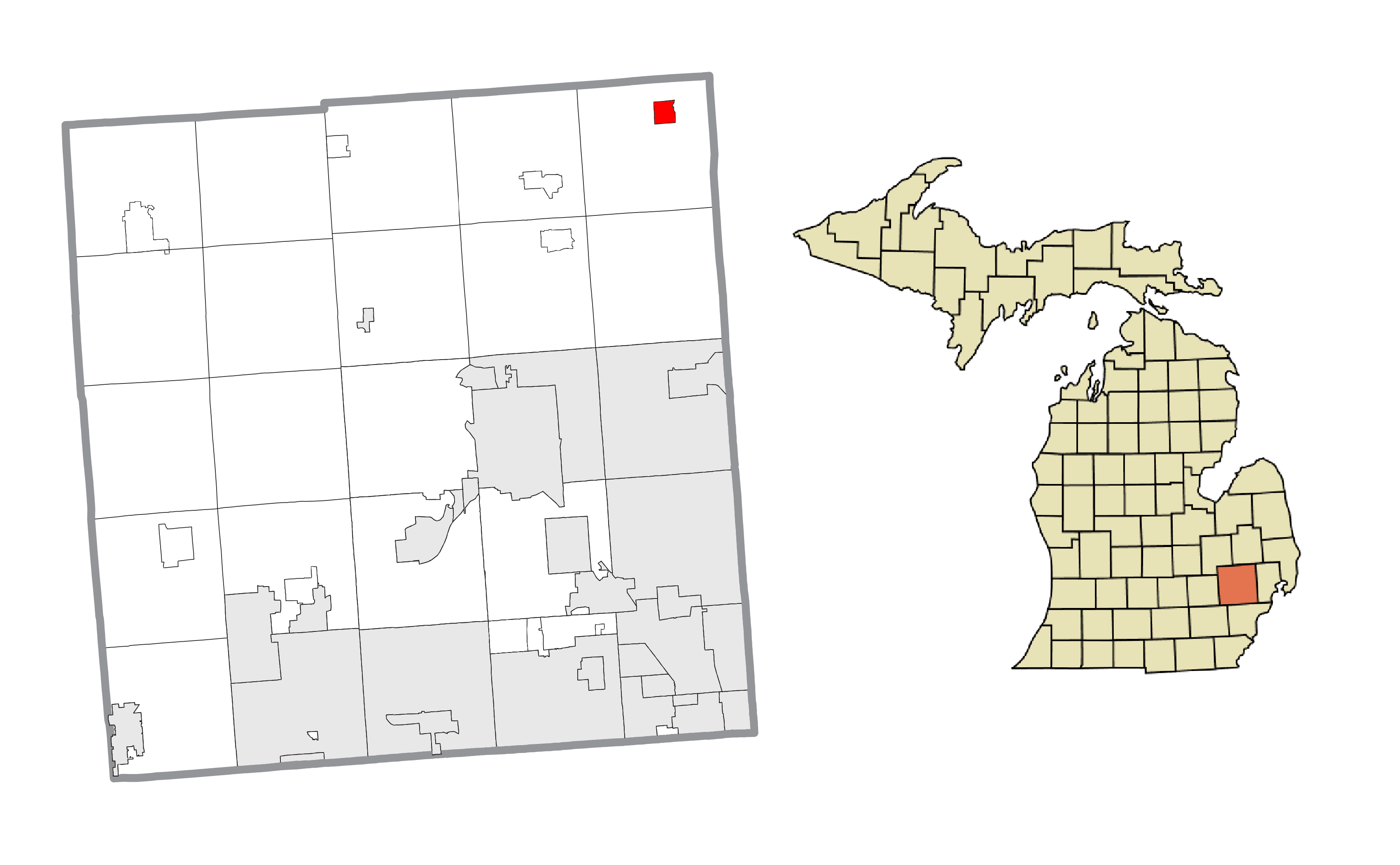 Leonard, MI